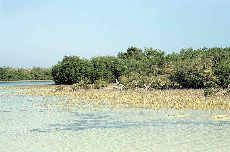 Mangroves in the Nabq Protected Area, Sinai, Egypt